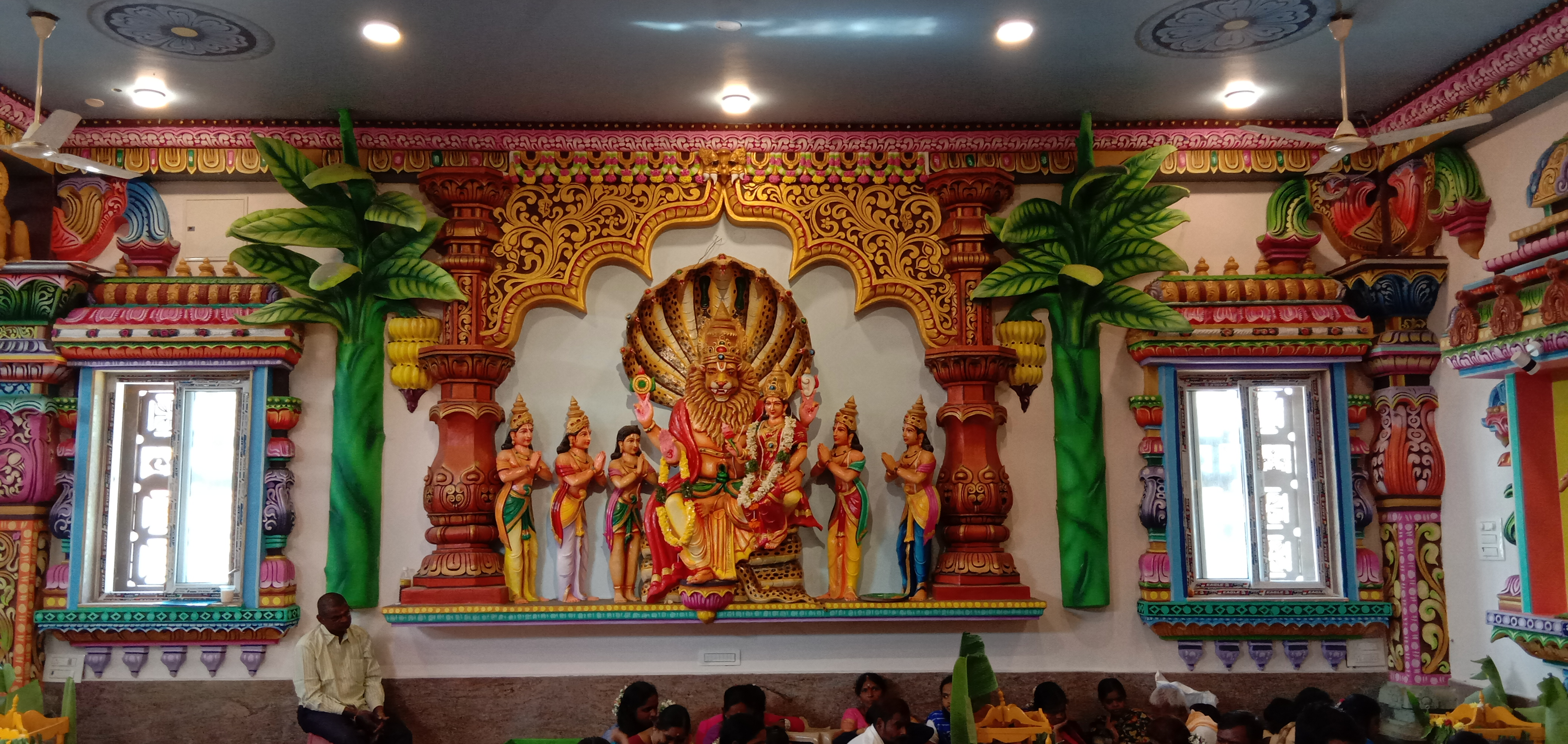 Statue of Lakshmi Narasimha at the Cheriyal Temple, Rangareddy district, Telangana.